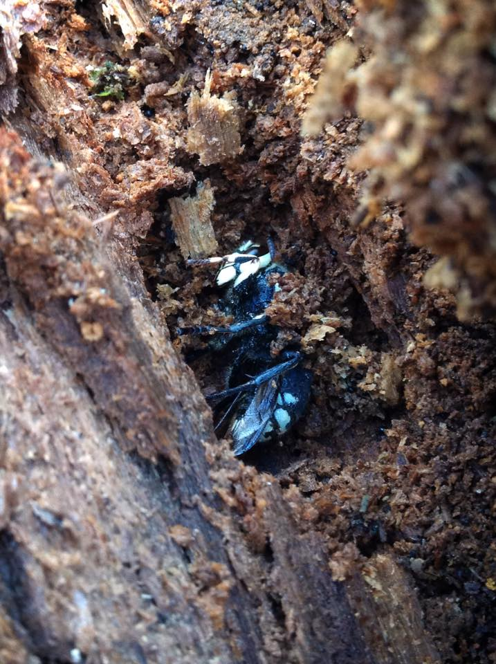 Bald-faced hornet sleeping in wood